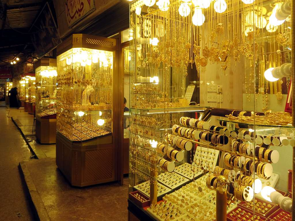 Gold merchants occupy a section of the covered bazaar at Al Ashar in central Basra, Iraq.